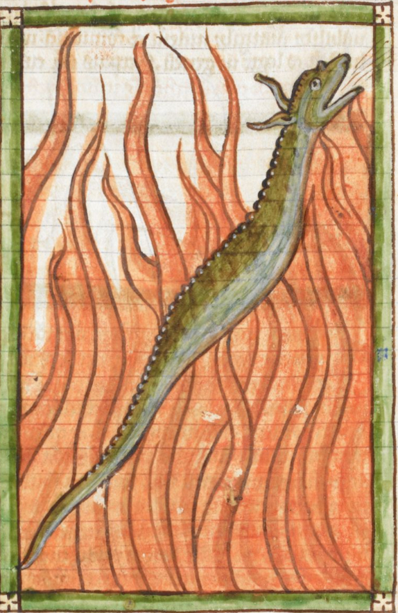 Salamandre - Bestiary Harley MS 3244, ff 36r-71v